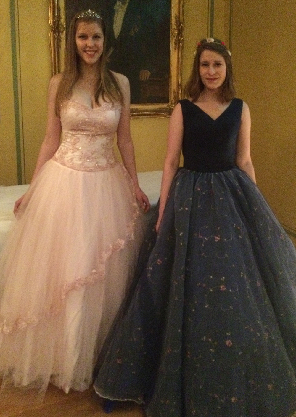 Two student girls in ball gowns during the 2016 white tie ball of the Science Students Society, University of Oslo